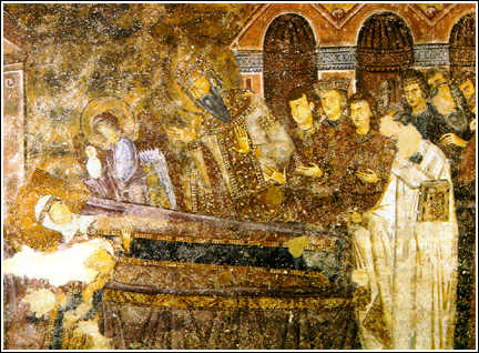 Death scene of Anna Dandolo painted on walls at Sopcani Monastery